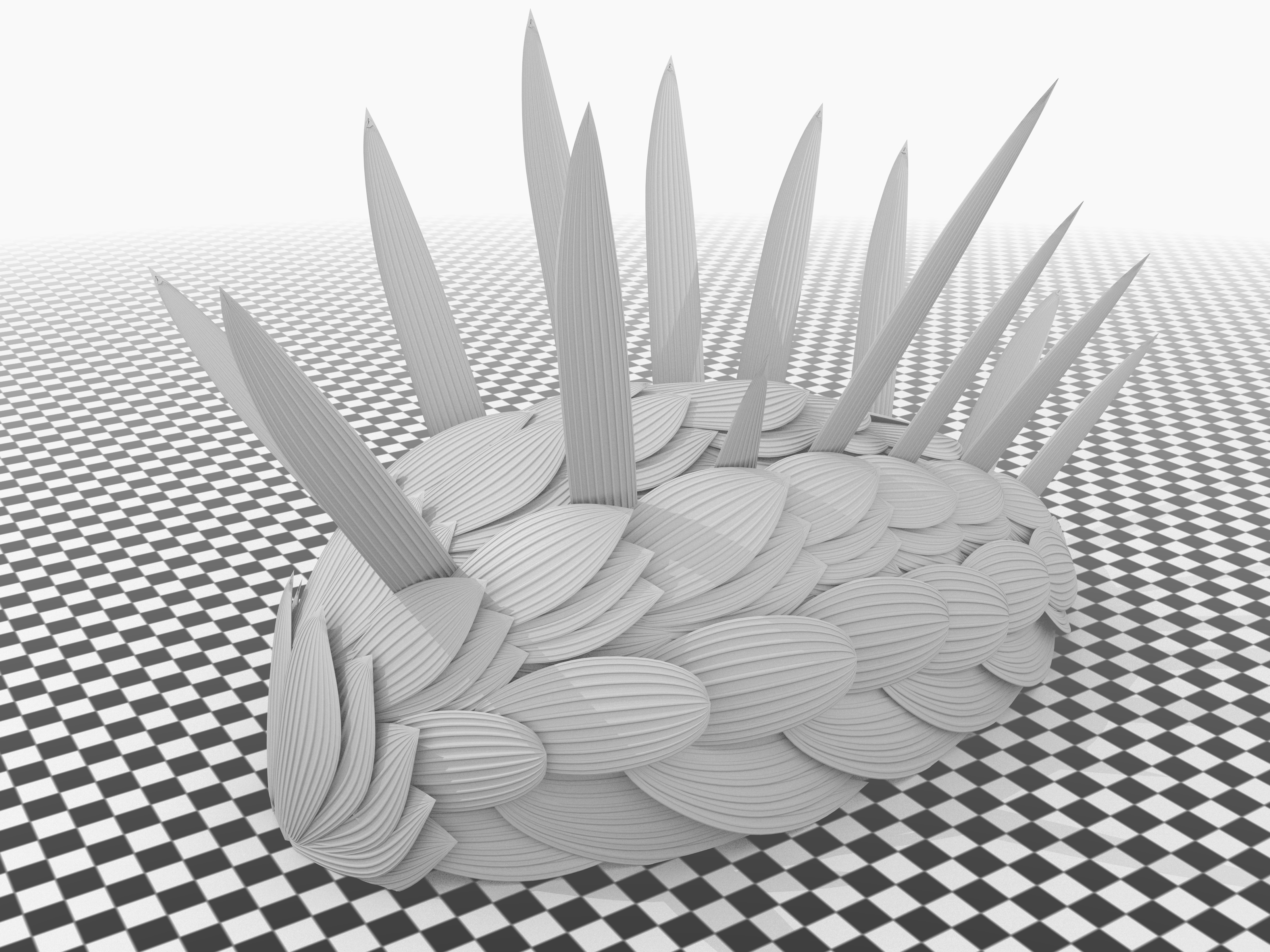 Computer reconstruction of mature Wiwaxia corrugata individual. Chequers represent 1 mm.